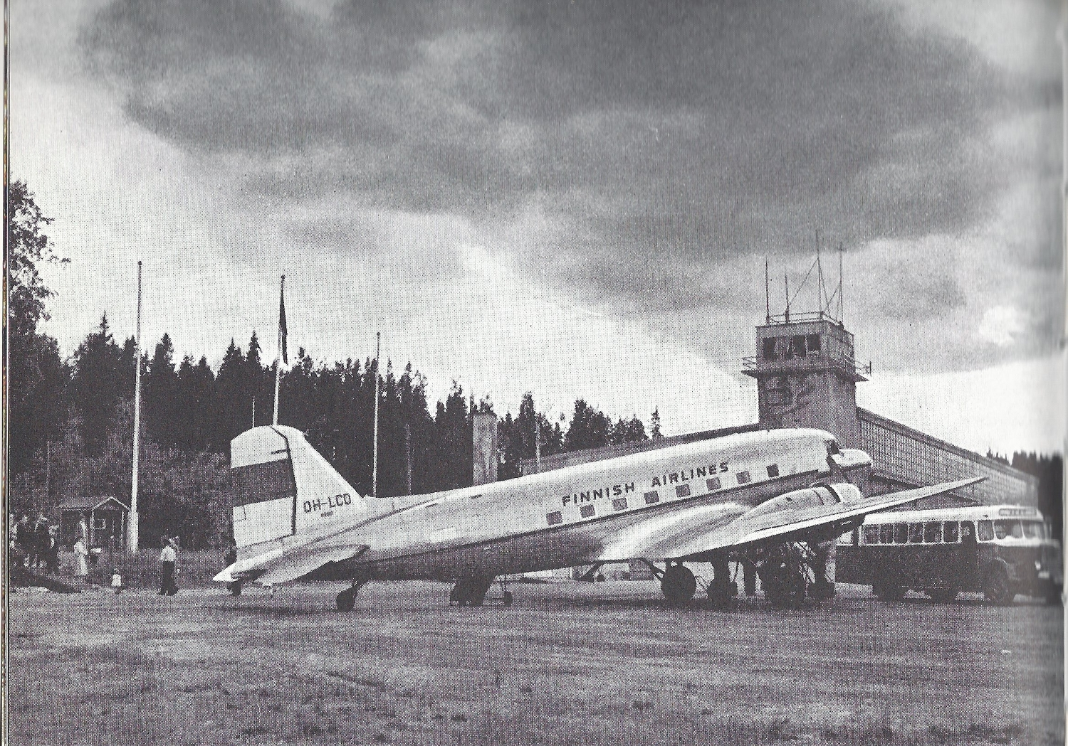 DC-3 aircraft (OH-LCO) at Jyväskylä airport, Finland